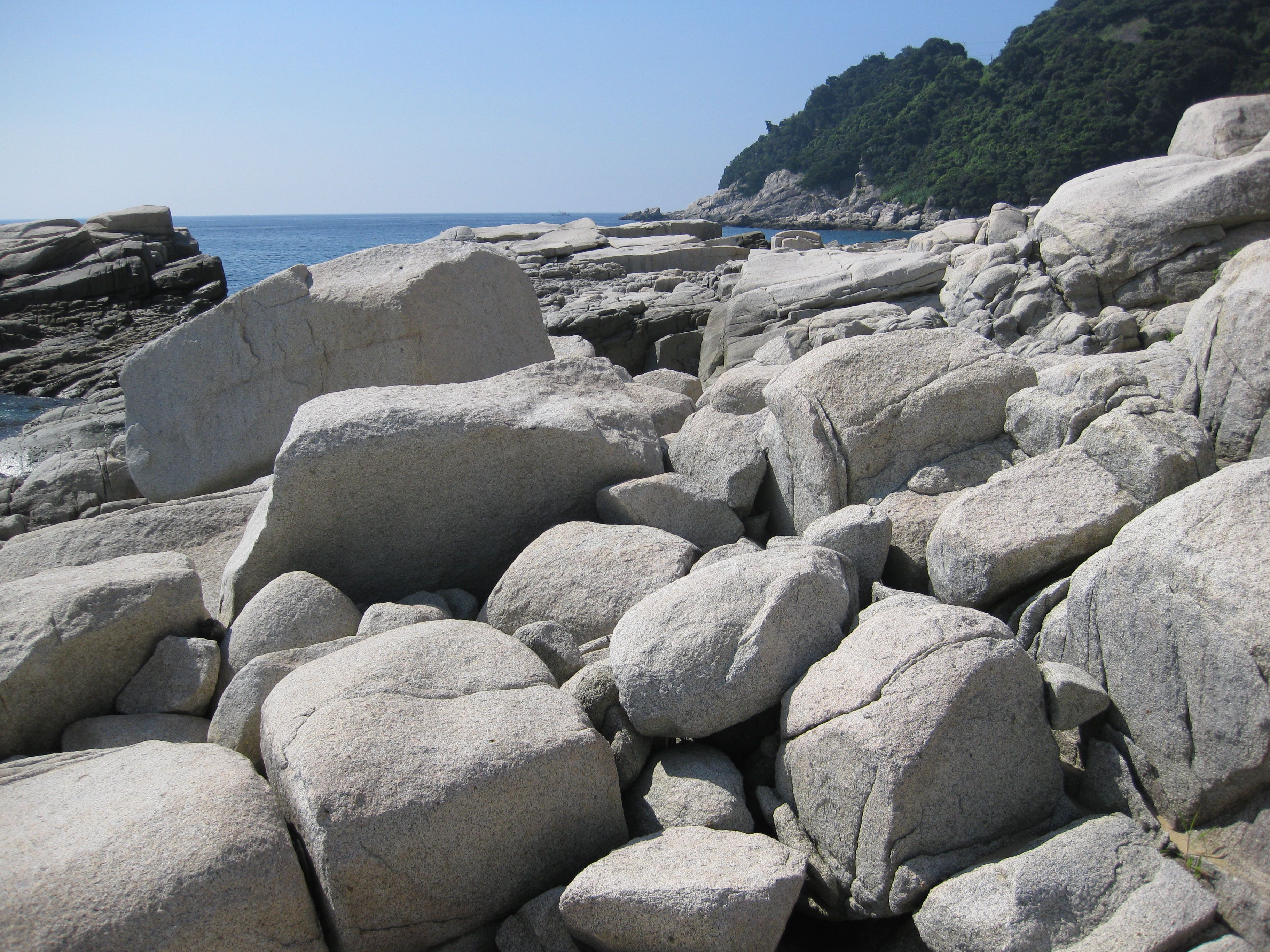 Granite of Kishira Beach in Kagoshima, Japan